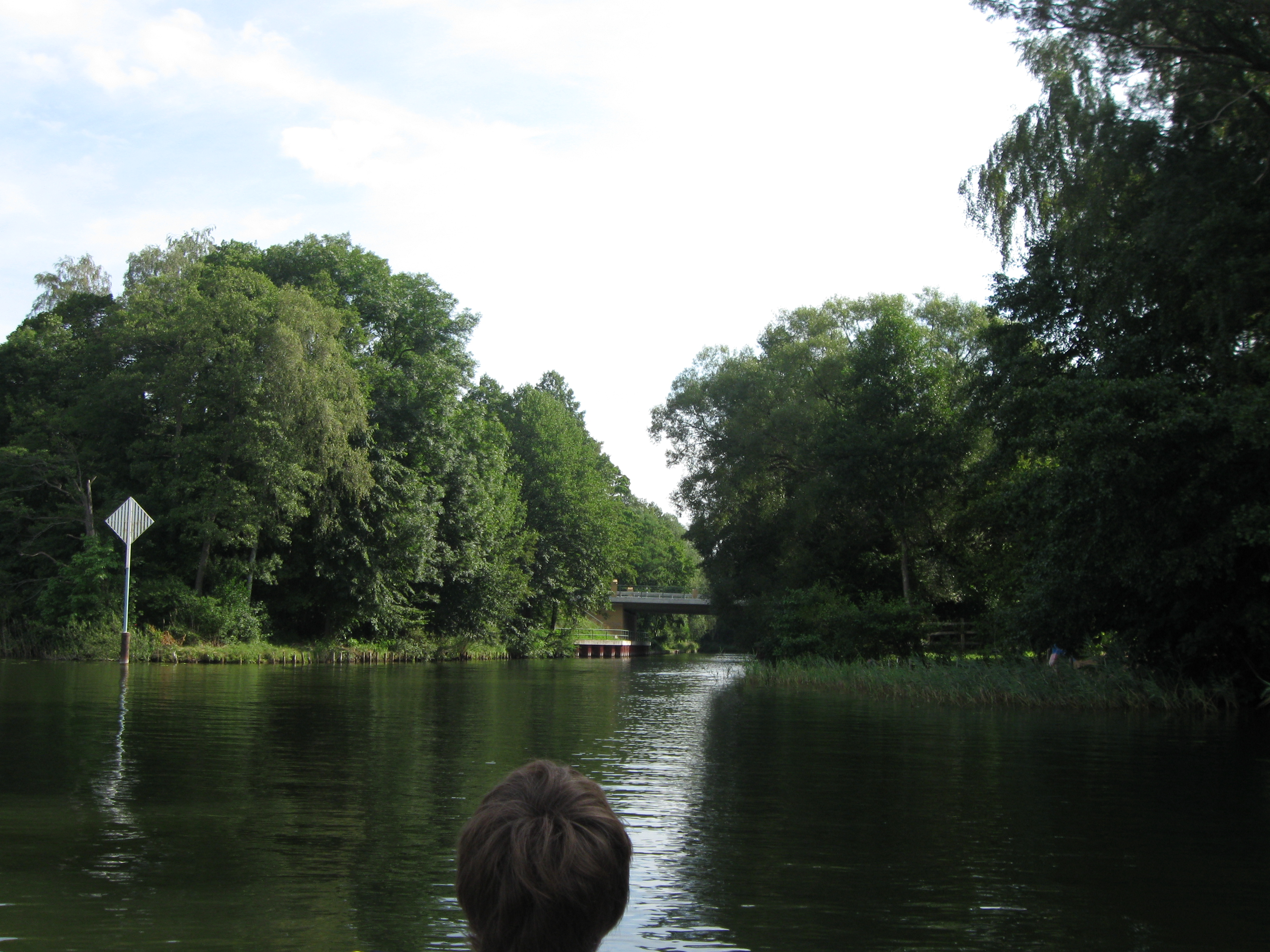 The Inlet of the canal Hüttenkanal